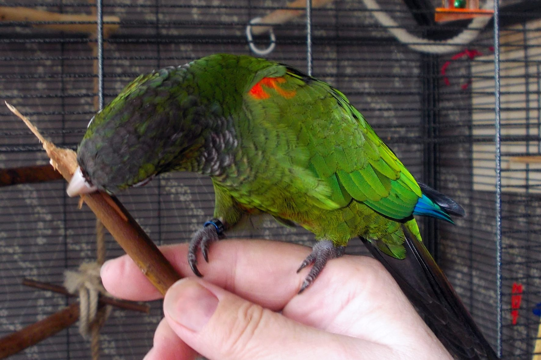 Demerara female "at work". These little parrots love to gnaw at wood, paper and many other things.